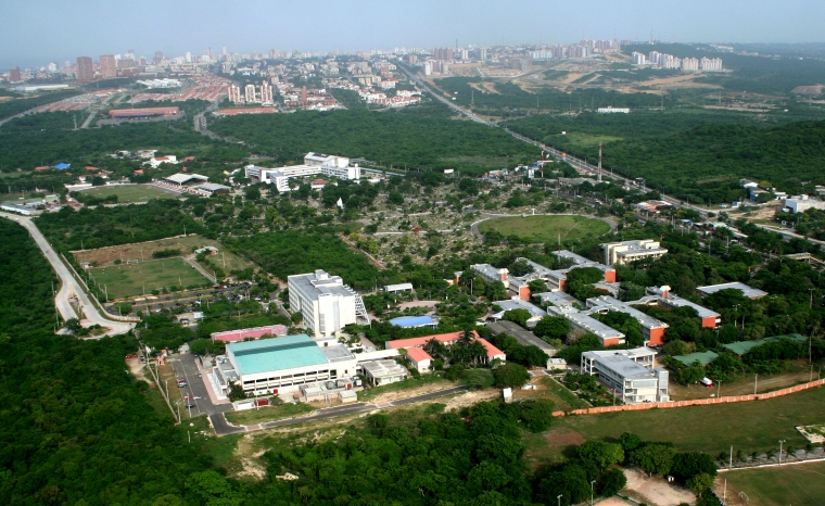 Aerial view of the Universidad del Norte campus in Barranquilla, Colombia.